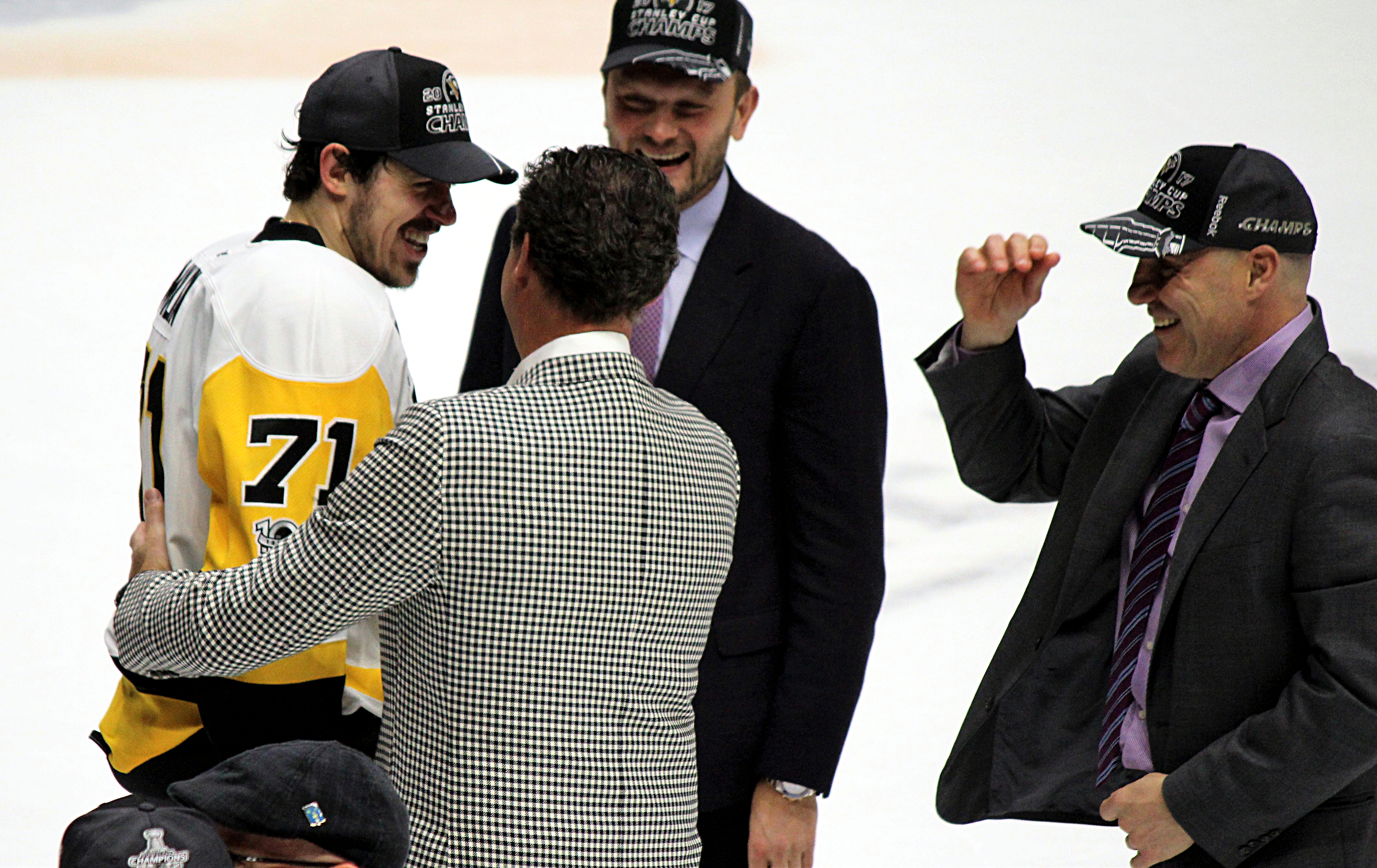 Evgeni Malkin talks to Mario Lemieux, Sergei Gonchar and Rick Tocchet following the Pittsburgh Penguins Stanley Cup win in Nashville in 2017.